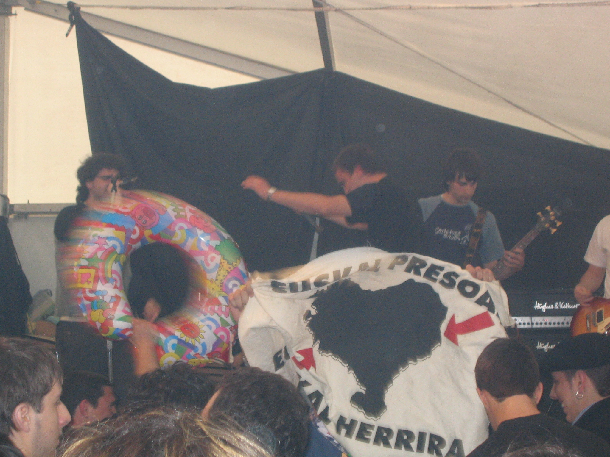 Kasu